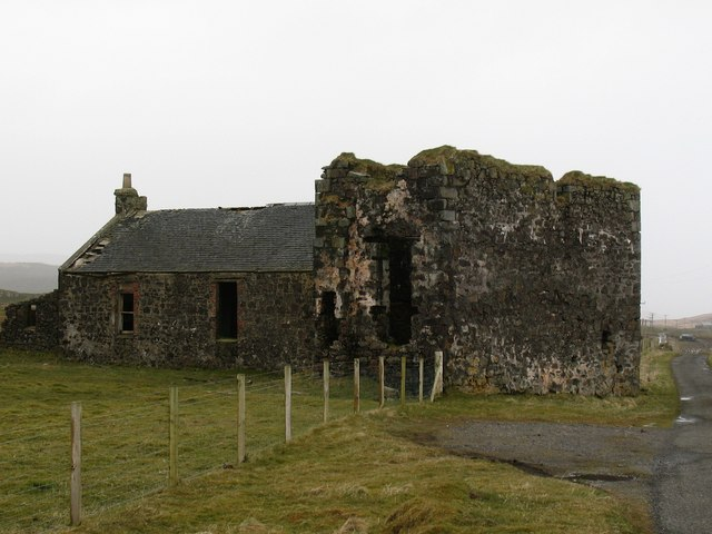 Old engine house at Mulreesh Standing in the centre of what was once Islay's main lead mining area, these buildings included miners' cottages [left] and an engine house, where a beam engine was used for the pumping of water from the local mines. The life of the engine appears to have barely spanned a decade in the 1870's & 80's.